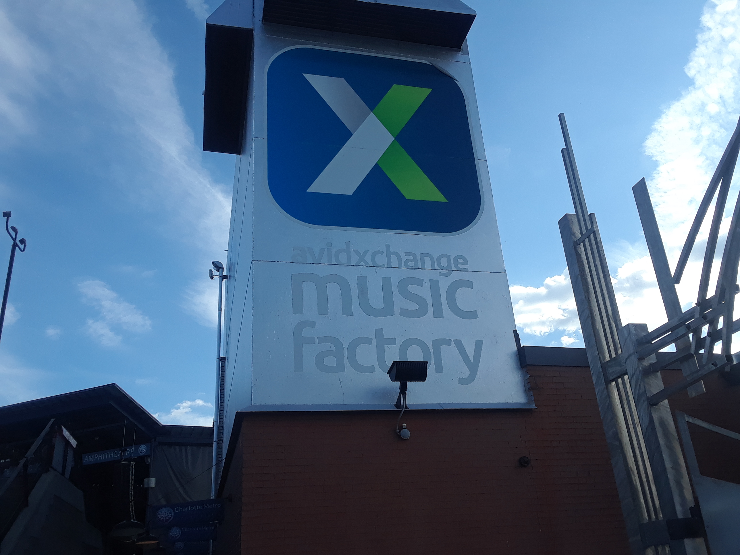 Sign for the AvidxChange Music Factory in Charlotte, North Carolina.